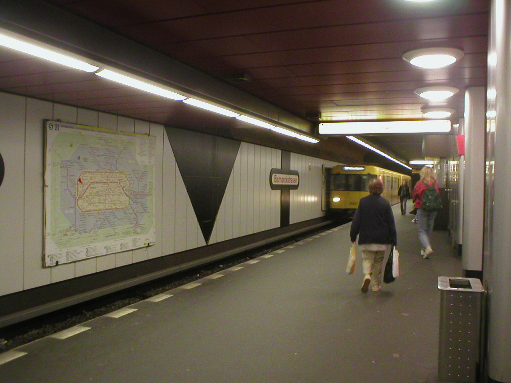 The Berlin U-Bahn station Bismarckstraße, line U7